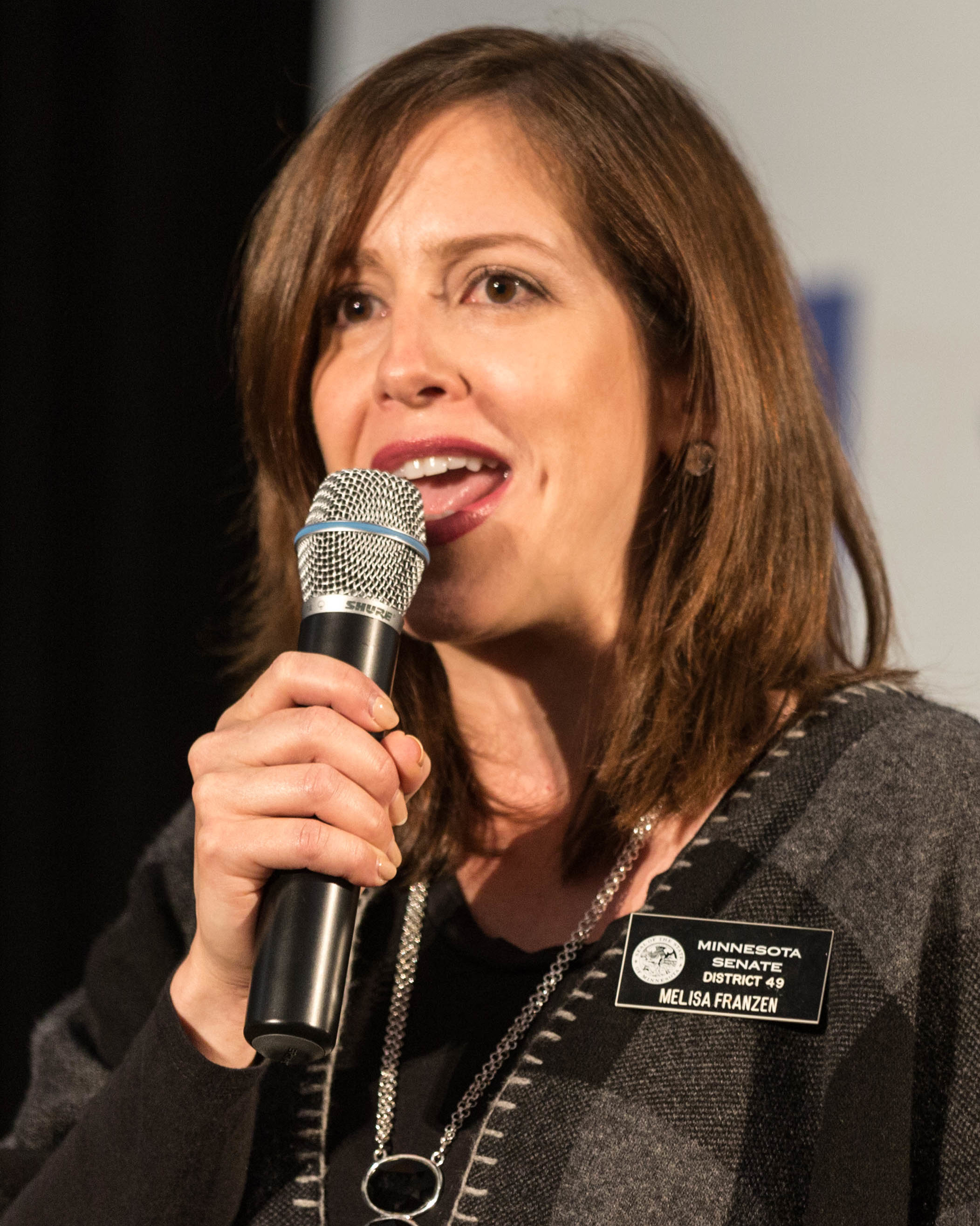 Senator Melisa Franzen (DFL) District 49, speaking in Minneapolis at a Hillary for MN rally at Plaza Verde